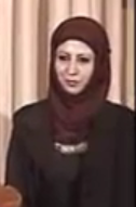 2008 International Women of Courage Awards